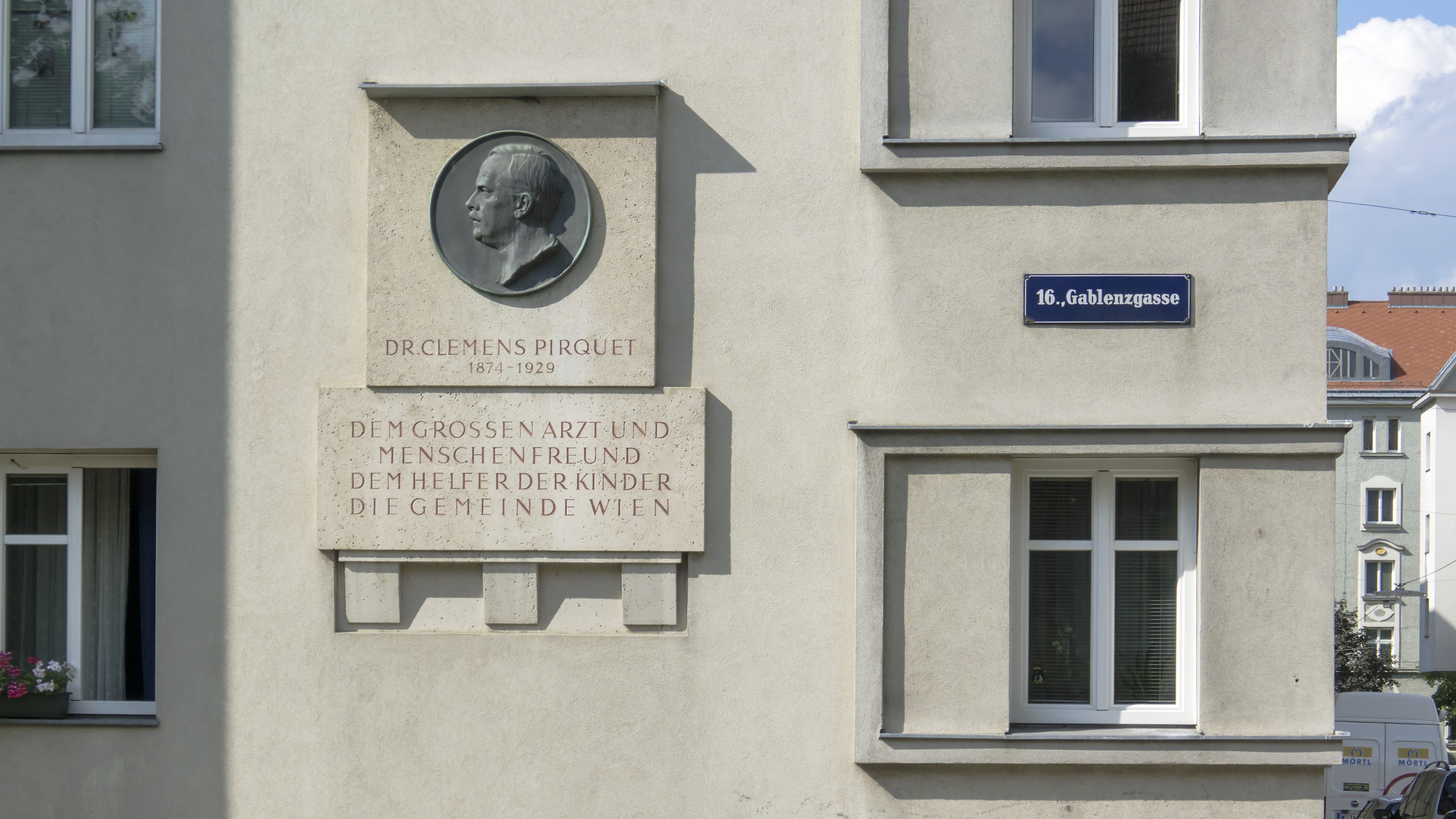 Municipality building Pirquethof in Vienna 16. The building was named after Clemens von Pirquet. The portrait medallion was created by Franz Seifert.